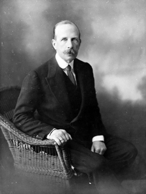 Photograph of Sir William Grey Ellison Macartney (1852 - 1924).